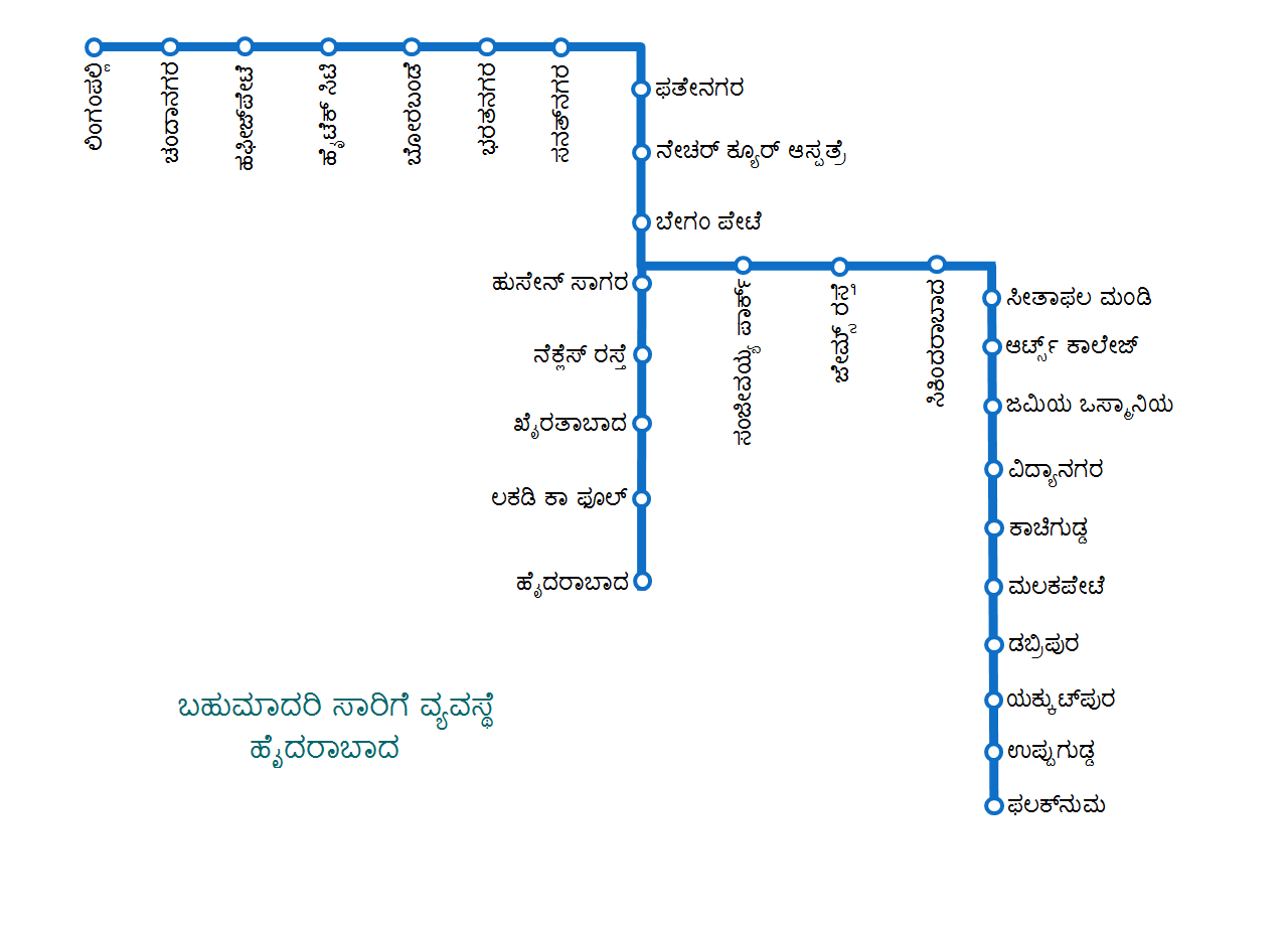 Hyderabad MMTS map